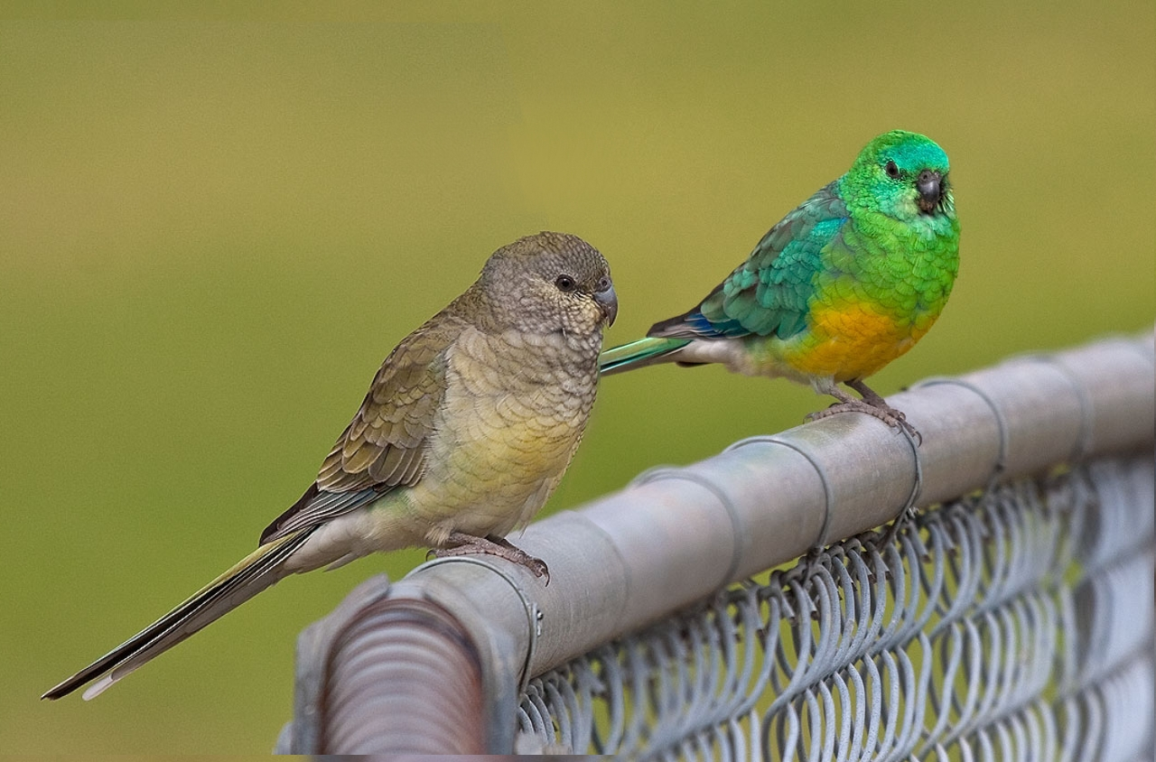 A pair of Red-rumped Parrots at Eastern Creek Raceway, Eastern Creek, New South Wales, Australia. The female is on the left and in the foreground. The male is in the background.